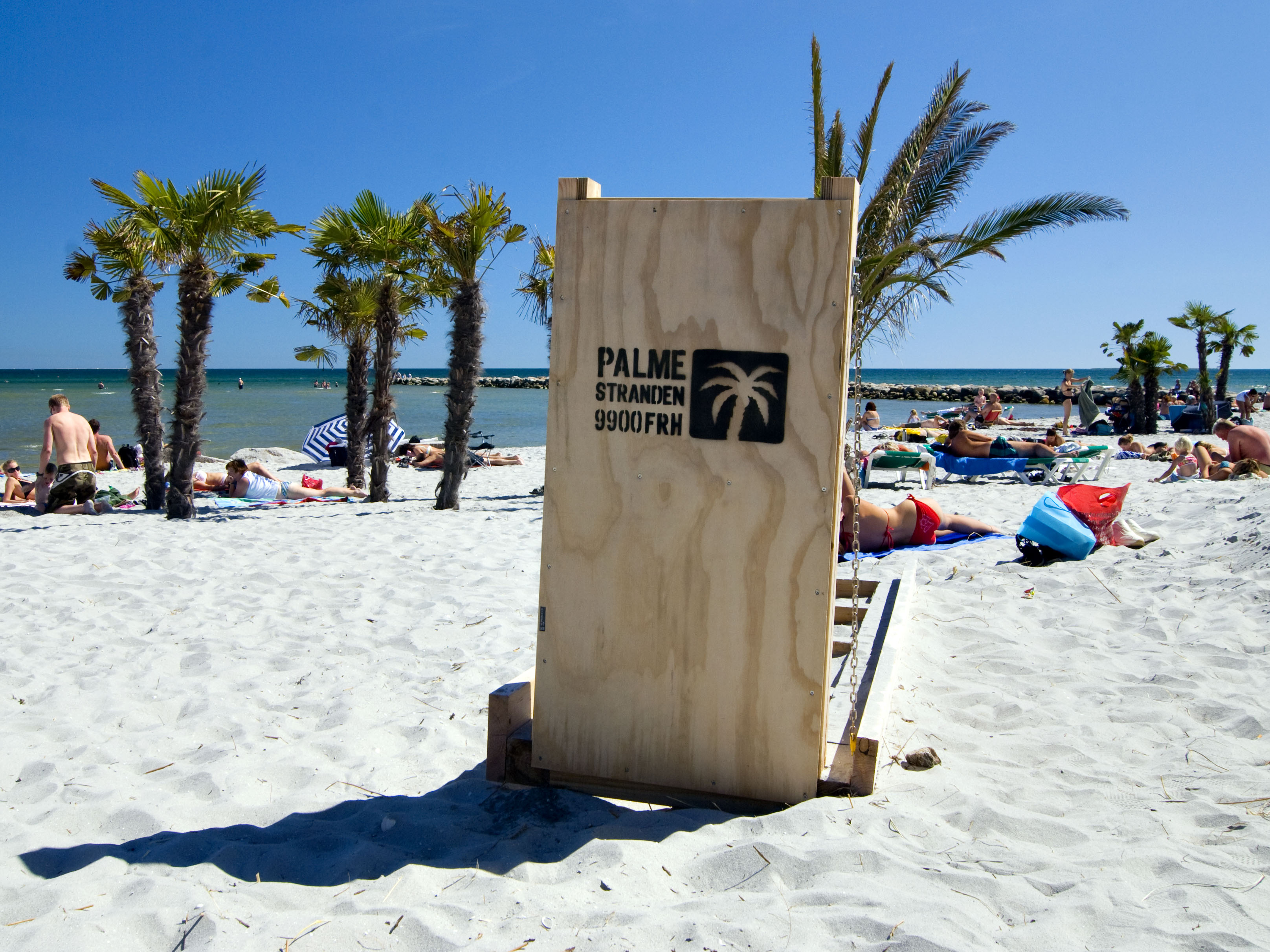 The Palm Beach in Frederikshavn. More info at palmestranden.dkDansk: Frederikshavns Palmestrand. Mere info på palmestranden.dk